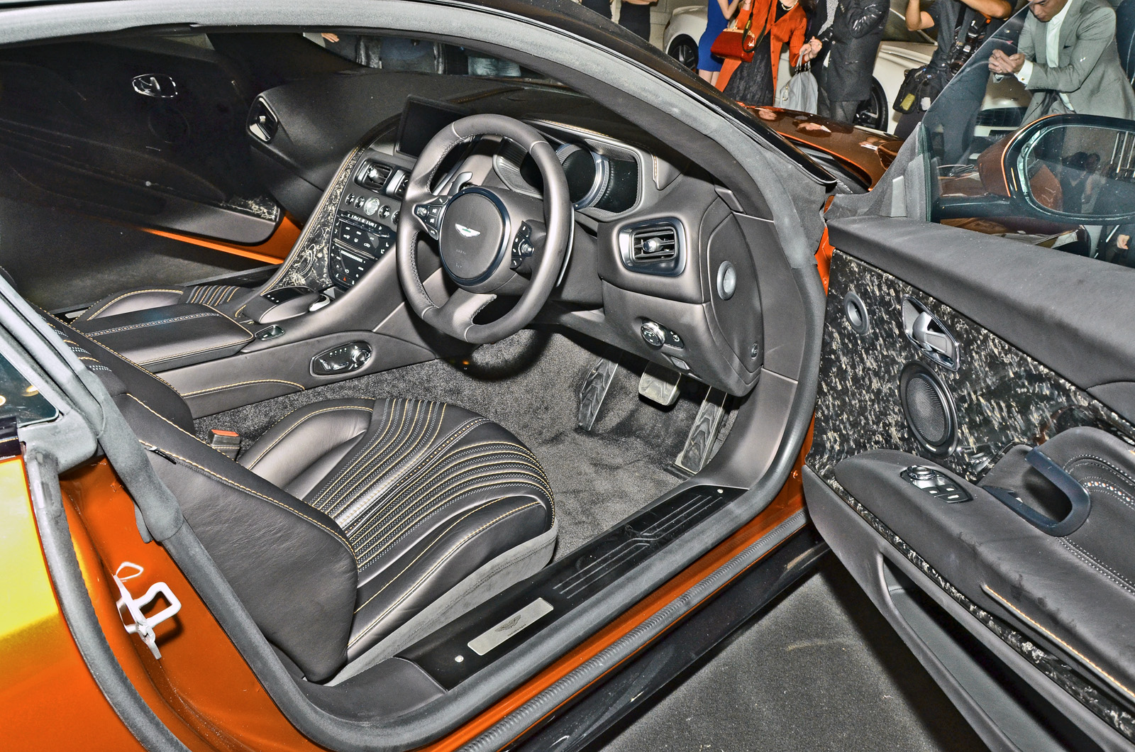 Pre-production DB11's interior from driver's side